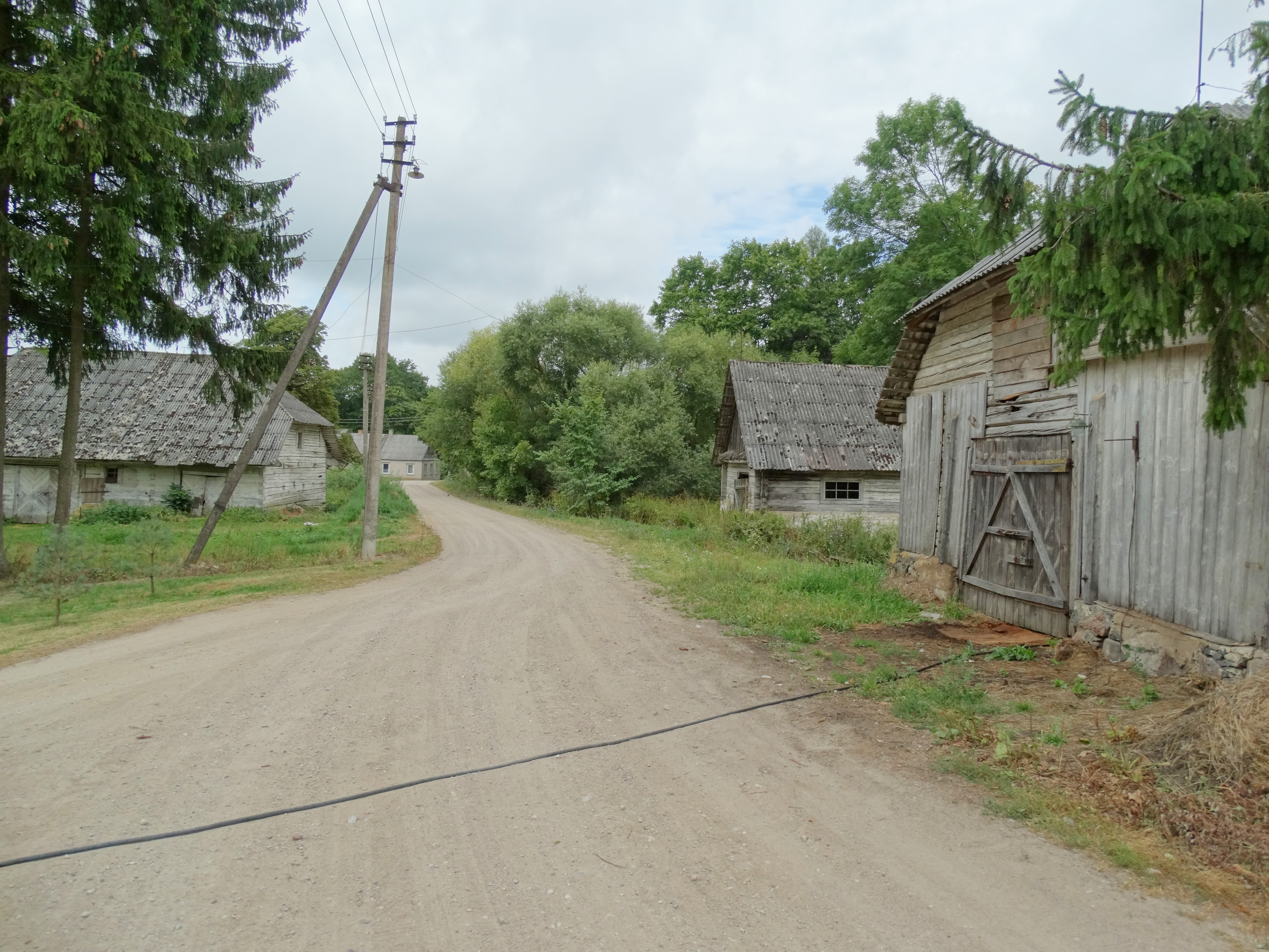 Šlavėnai, Anykščiai district, Lithuania